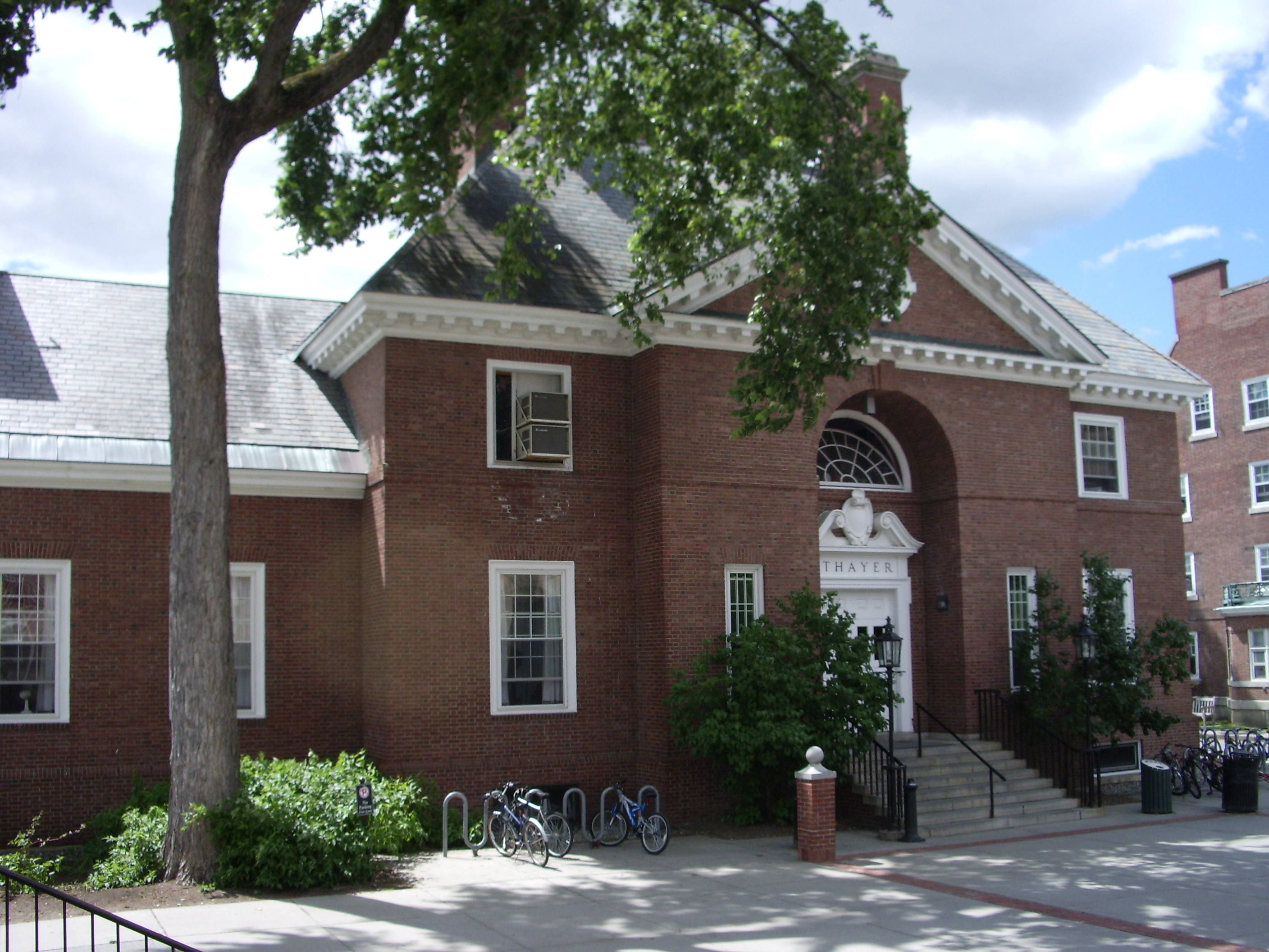 Photograph of Thayer Dining Hall at the campus of Dartmouth College in Hanover, New Hampshire.